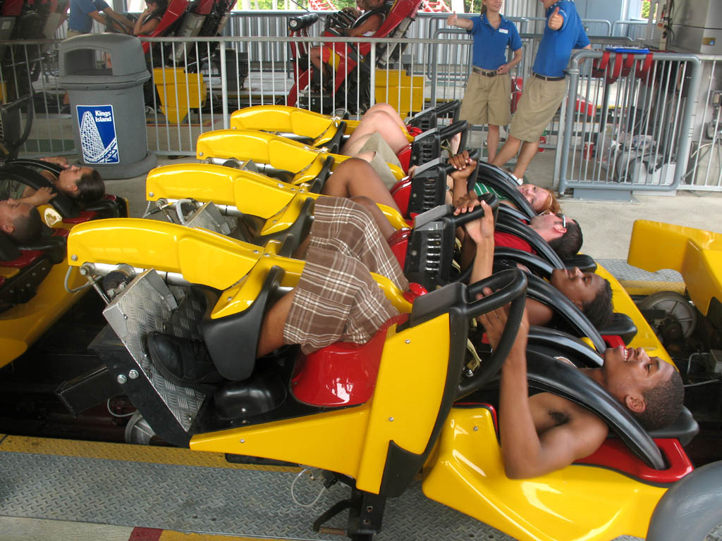 Vekoma flying roller coaster Firehawk at Kings Island. Formerly X-Flight at Geauga Lake. Taken August 2007